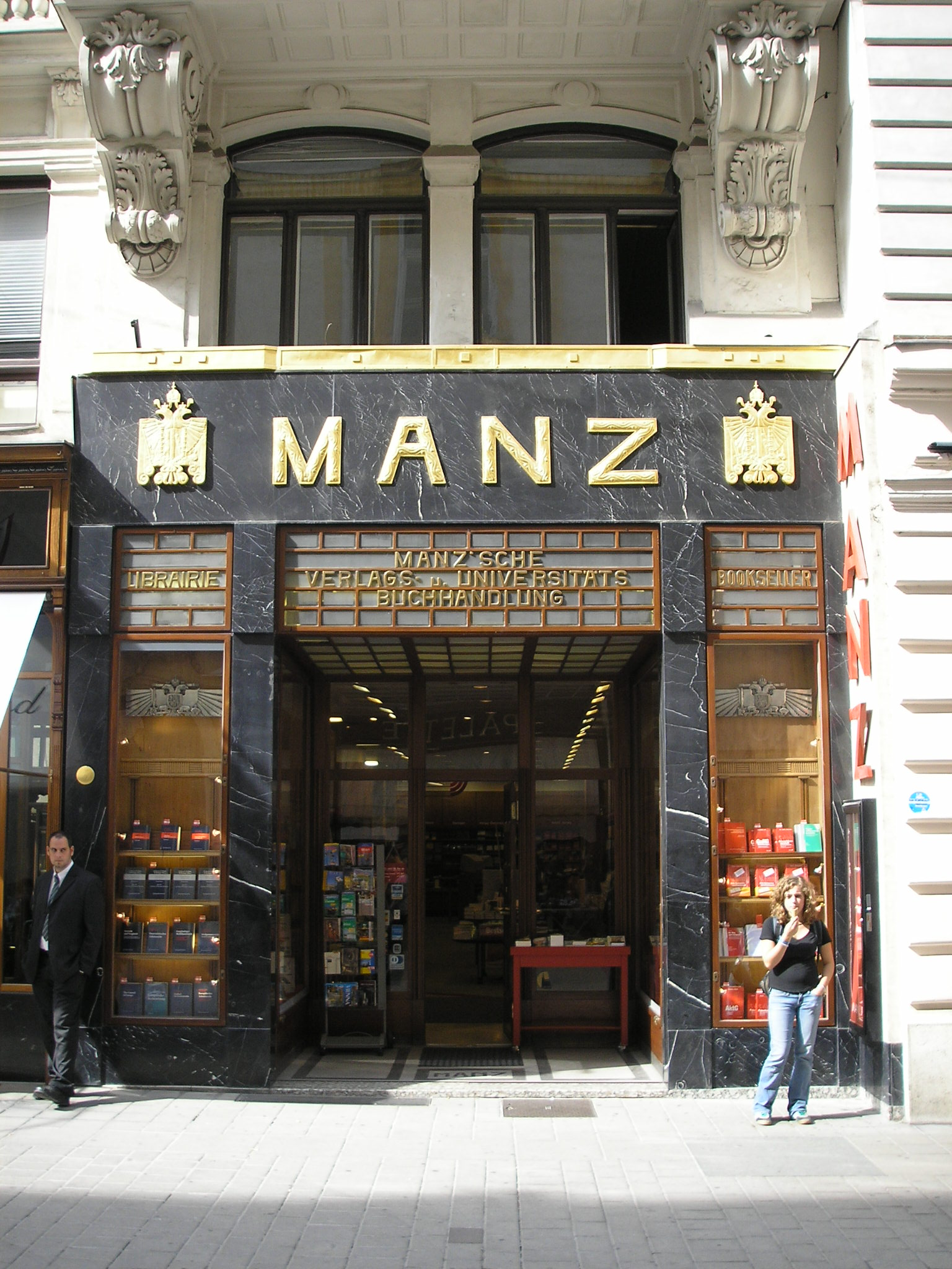 Image of the bookstore "Manz" at the Kohlmarkt in Vienna's first district Innere Stadt.